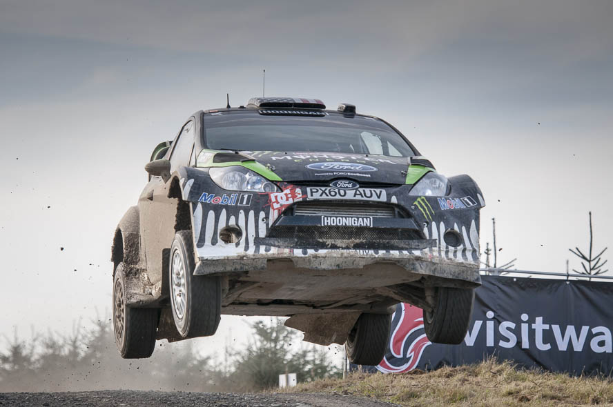 Wales Rally GB 2011 Alex Gelsomino,Ford Fiesta RS WRC,GBR,Großbritannien,Ken Block,Llangamarch Community,Llangammarch Wells,Monster WRT,Monument 2,Motorsport,Power Stage,Powerstage,Rally,Rallye,SS23,WP23,Wales,Wales Rally GB